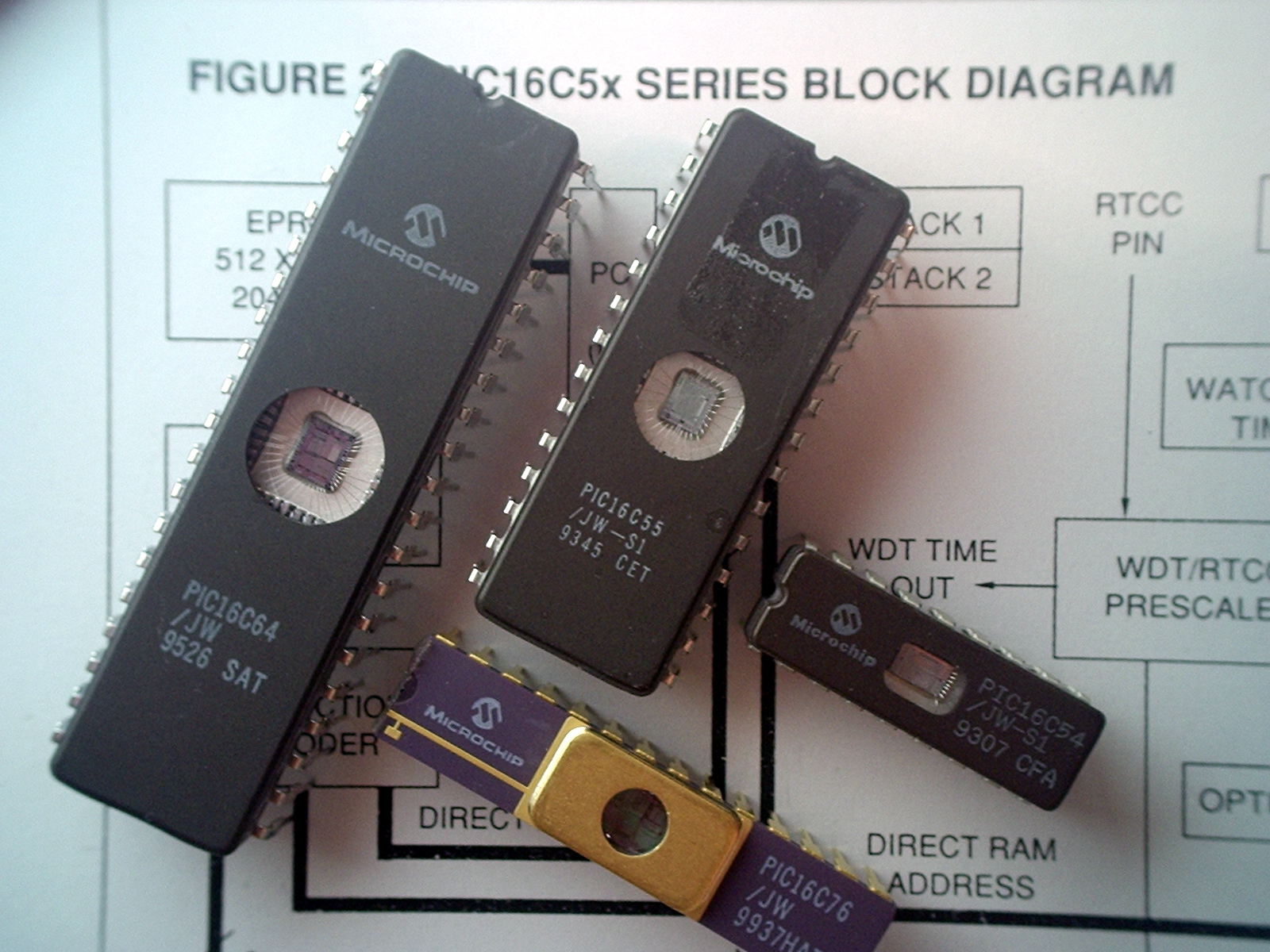 Author Camillo Ferrari Olympus digital camera C-150 with macro-lens.